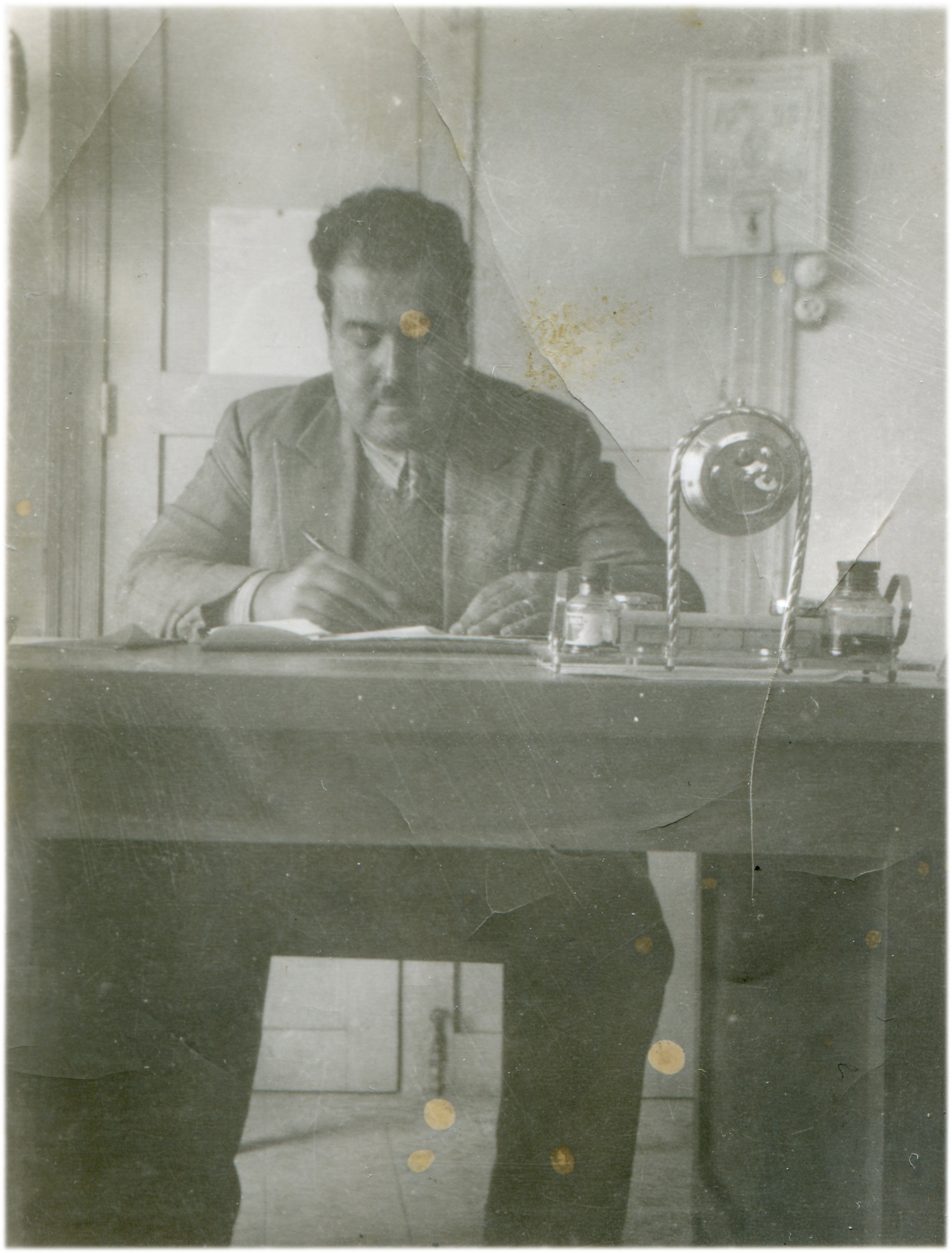 Cheikh Boutros Khoury desk